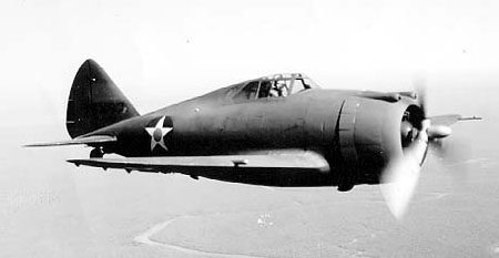 Republic P-43 in flight over Esler Field, La. on March 9, 1942